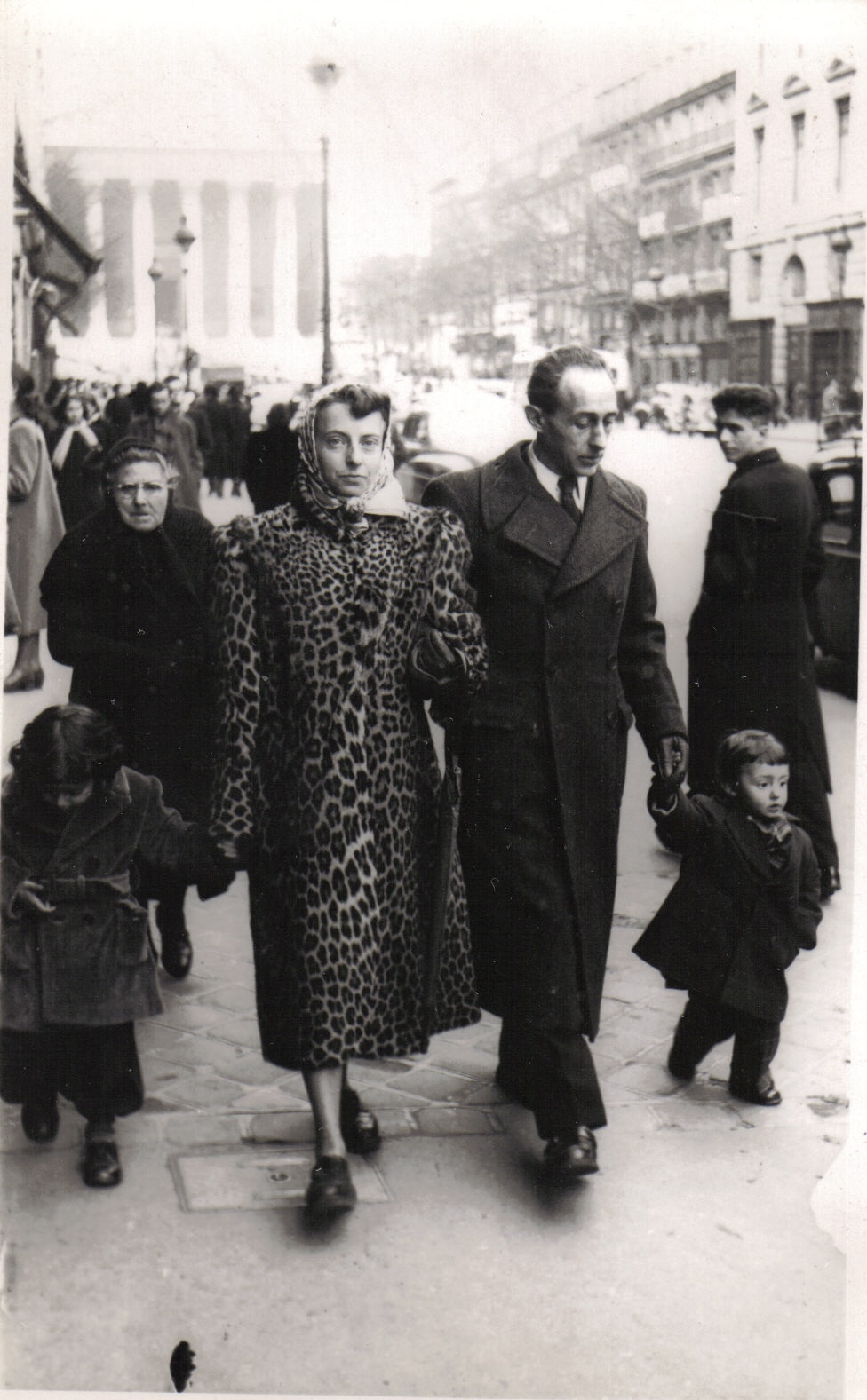 Agnelle Bundervoet and her oldest sons Joel and Axel